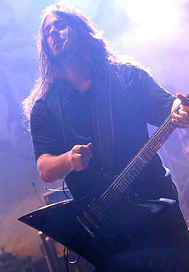 Jean-Francois Dagenais performing live with Kataklysm